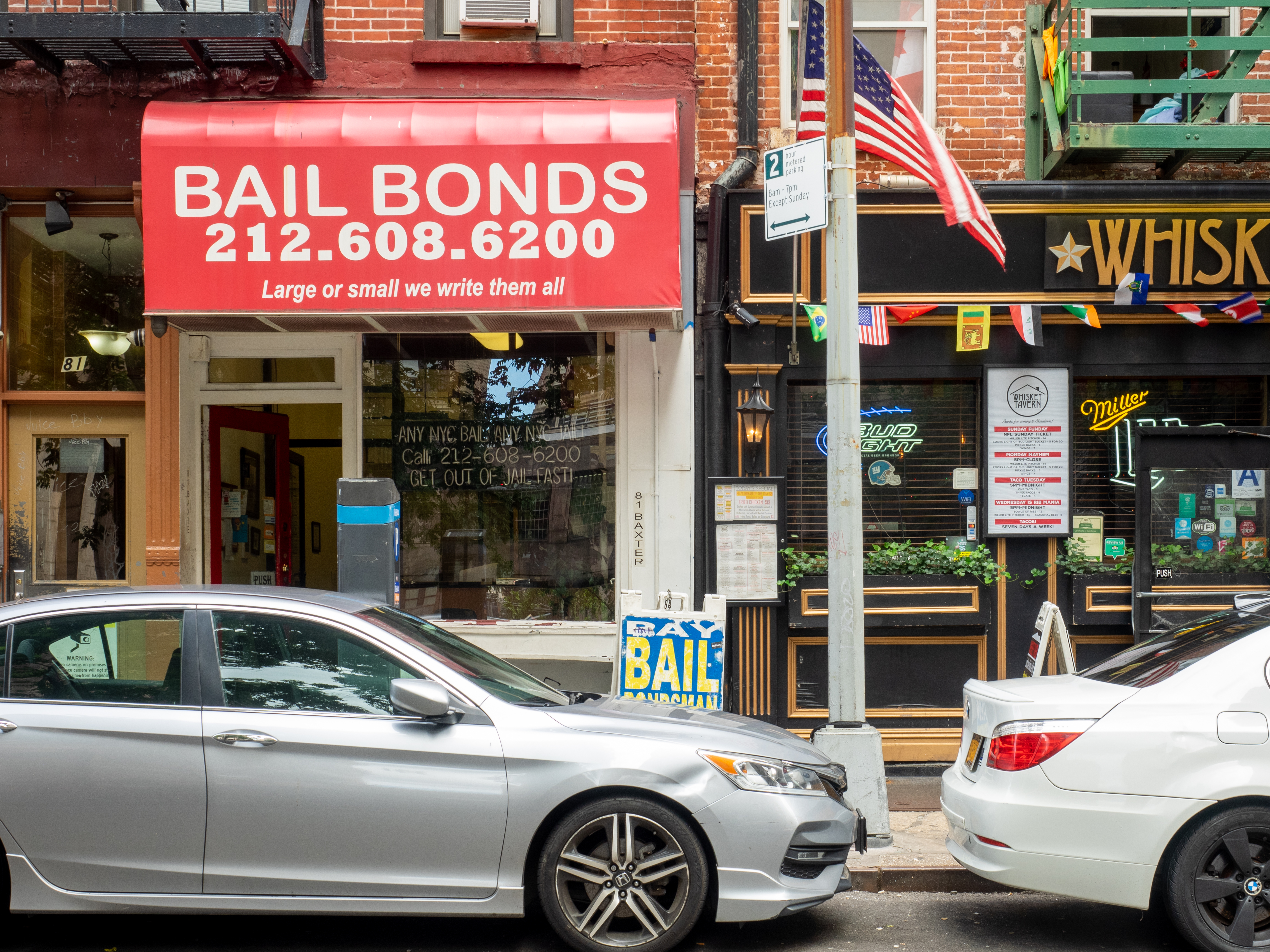 Civic Center, Manhattan, NYC